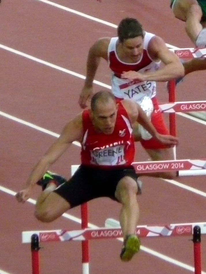 Dai Greene and Richard Yates at the 2014 Commonwealth Games